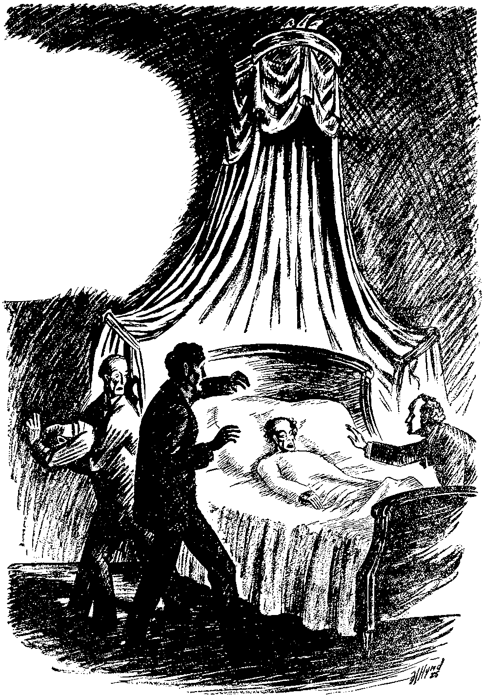 Opening illustration for the story The Facts in the Case of M Valdemar by Edgar Allan Poe from the first issue (April 1926) of the pulp magazine Amazing Stories.